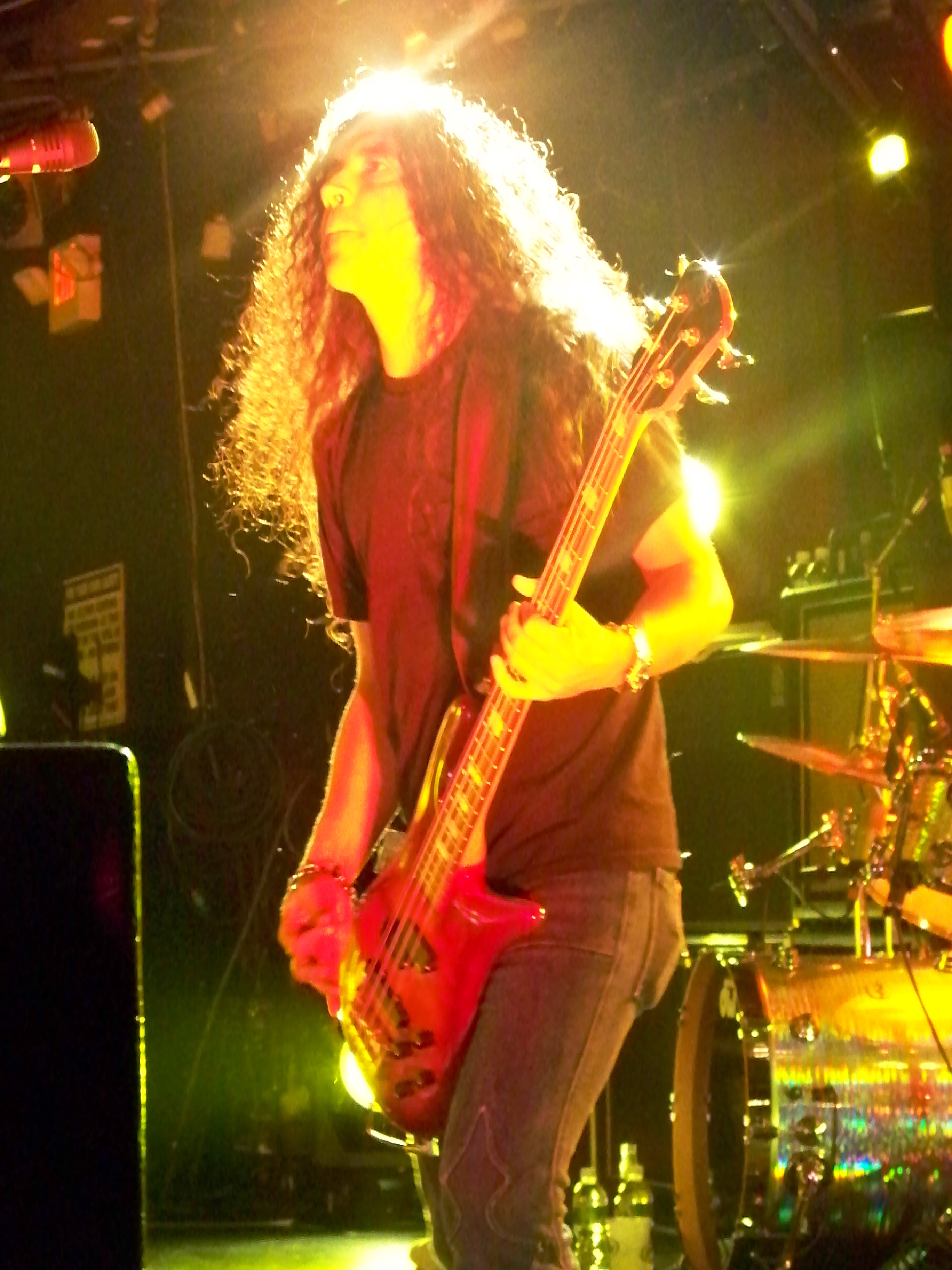 Mike Inez live at 2008